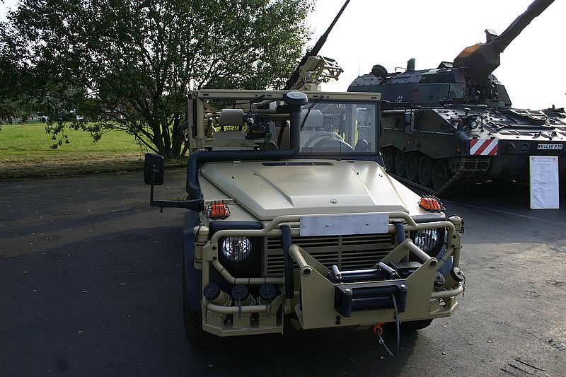 The Picture shows the SERVAL a German made LIV(SO) Light Infantry Vehicles-Special Operations.